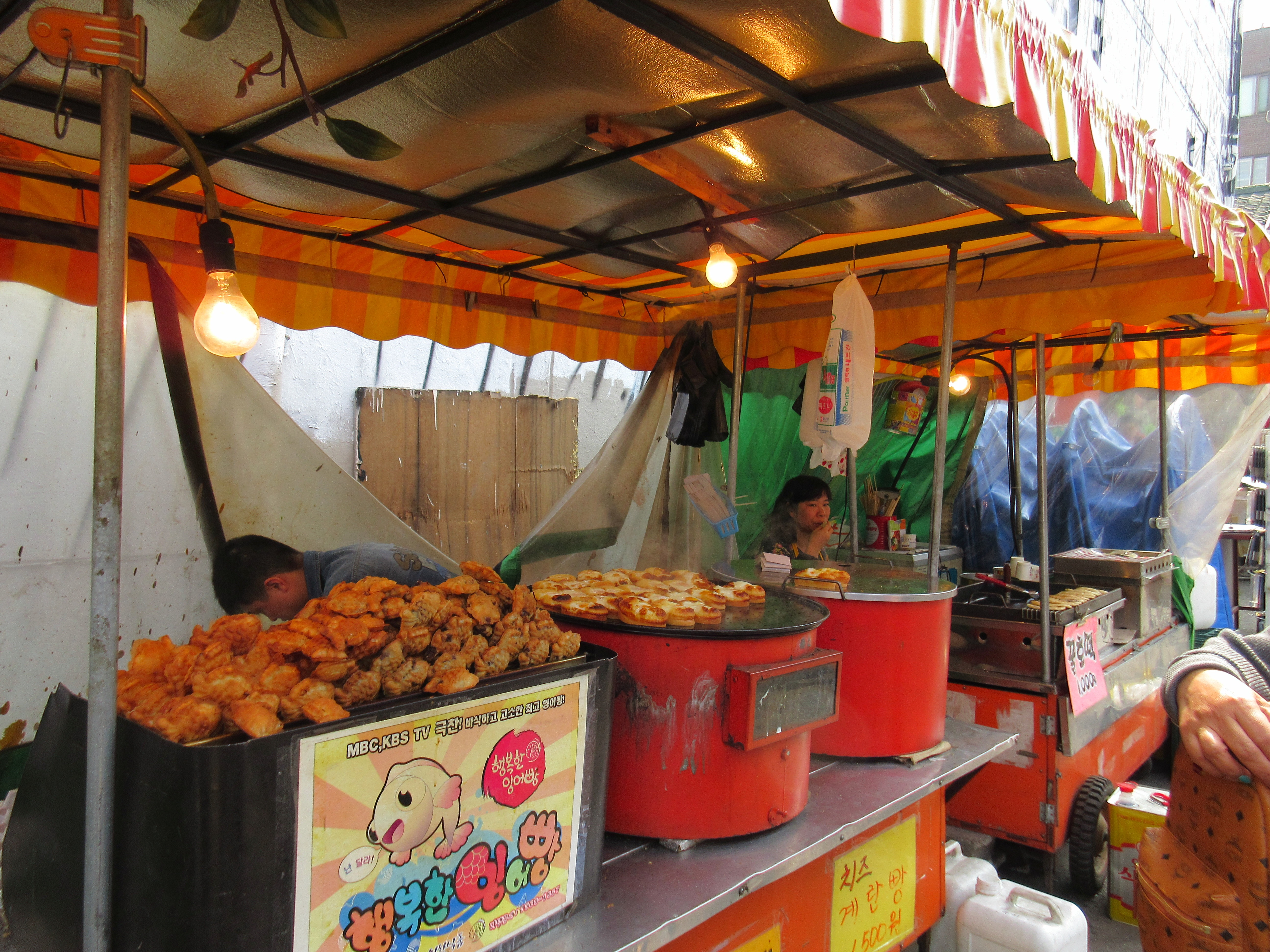 you want this ―all of this 🇰🇷